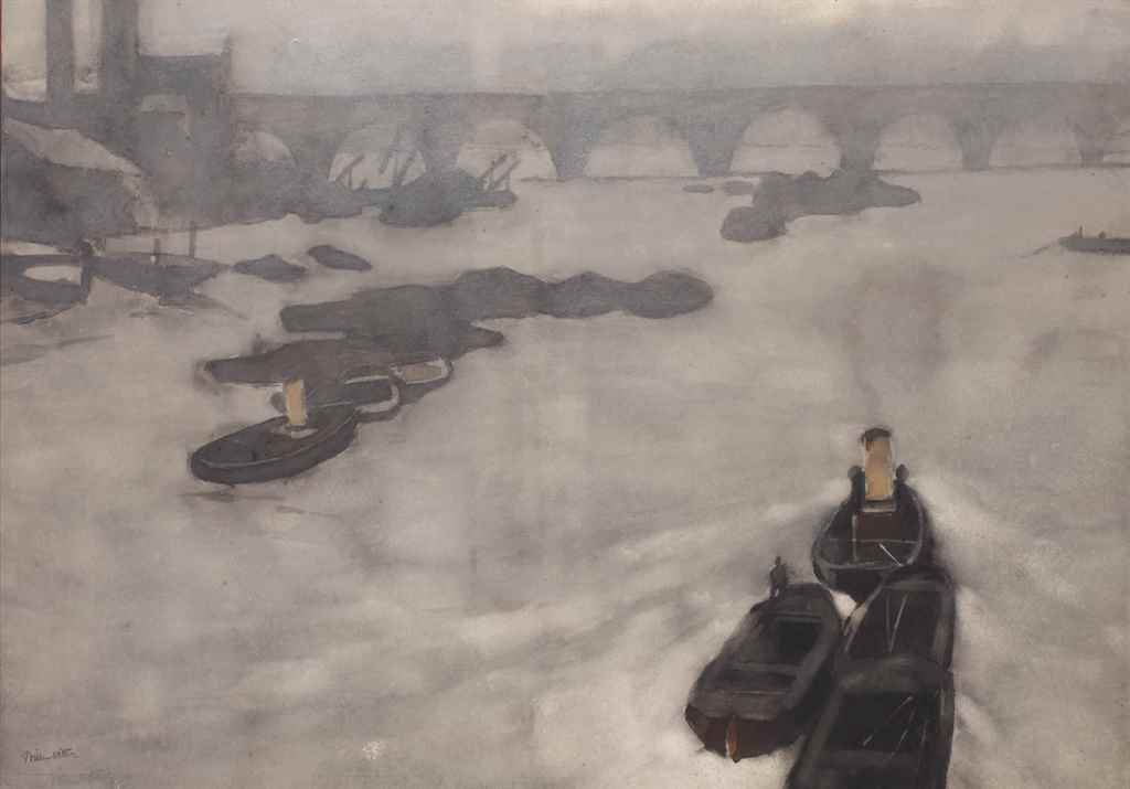 Boats_on_the_Thames_in_the_fog_London, 565 x 765 mm